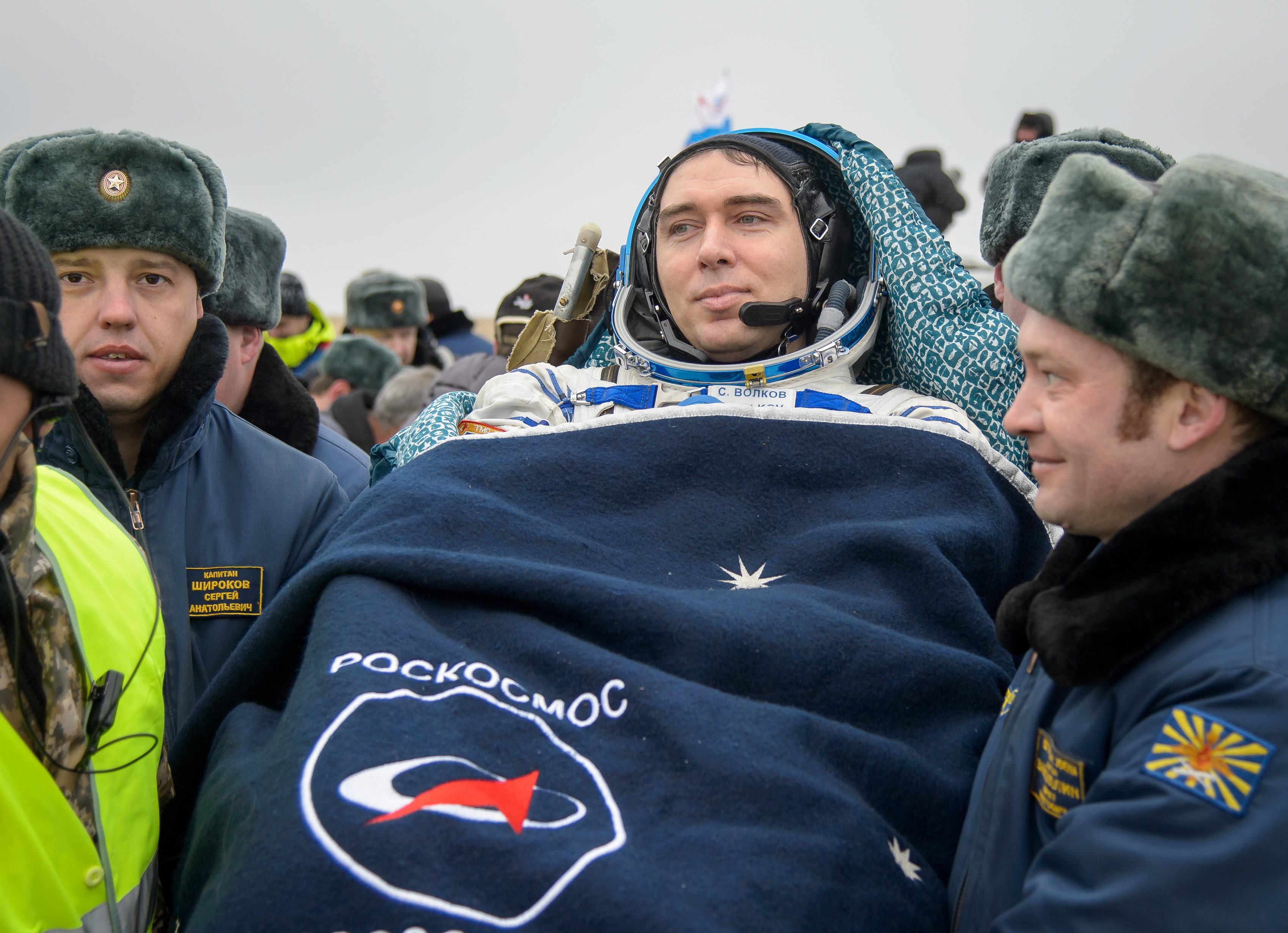 Russian cosmonaut Sergey Volkov of Roscosmos is carried into a medical tent after he and Expedition 46 Commander Scott Kelly of NASA and cosmonaut Mikhail Kornienko landed in a remote area near the town of Zhezkazgan, Kazakhstan on Wednesday, March 2, 2016 (Kazakh time). Kelly and Kornienko completed an International Space Station record year-long mission to collect valuable data on the effect of long duration weightlessness on the human body that will be used to formulate a human mission to Mars. Volkov returned after spending six months on the station.